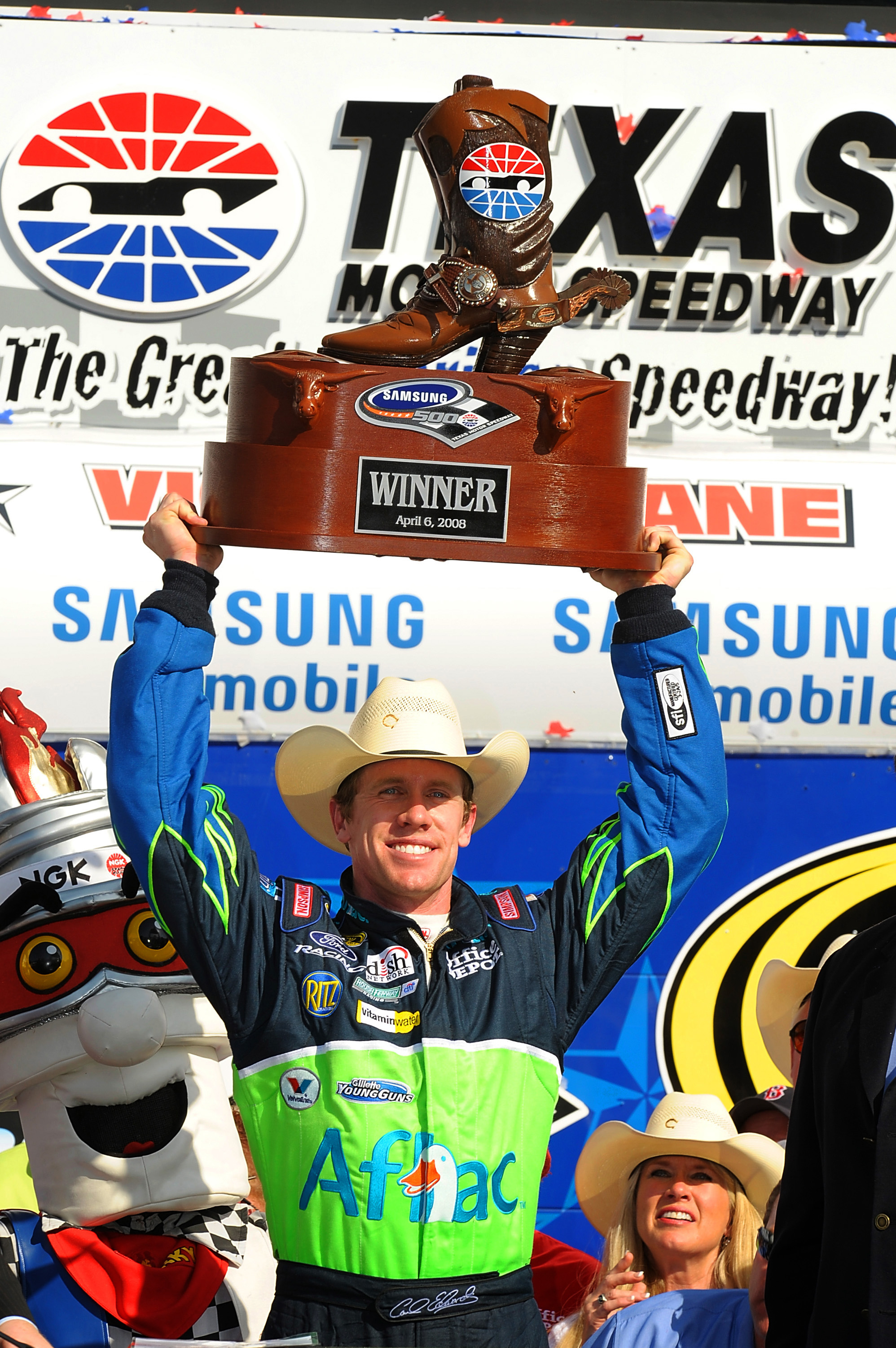 04/06/08 Fort Worth, Texas USA. Carl Edwards holds up his winners trophy.